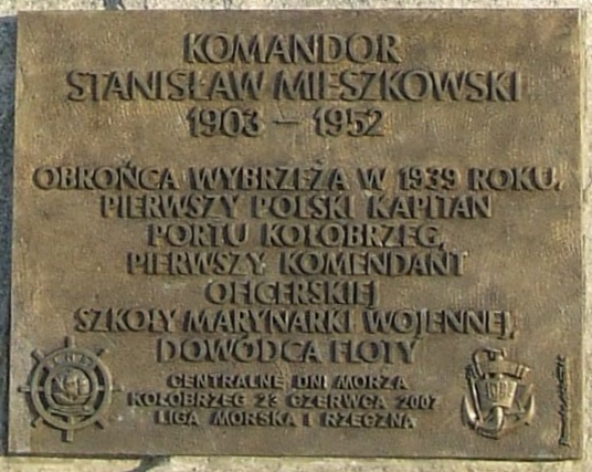 Board on commander Mieszkowski monument in Kolobrzeg